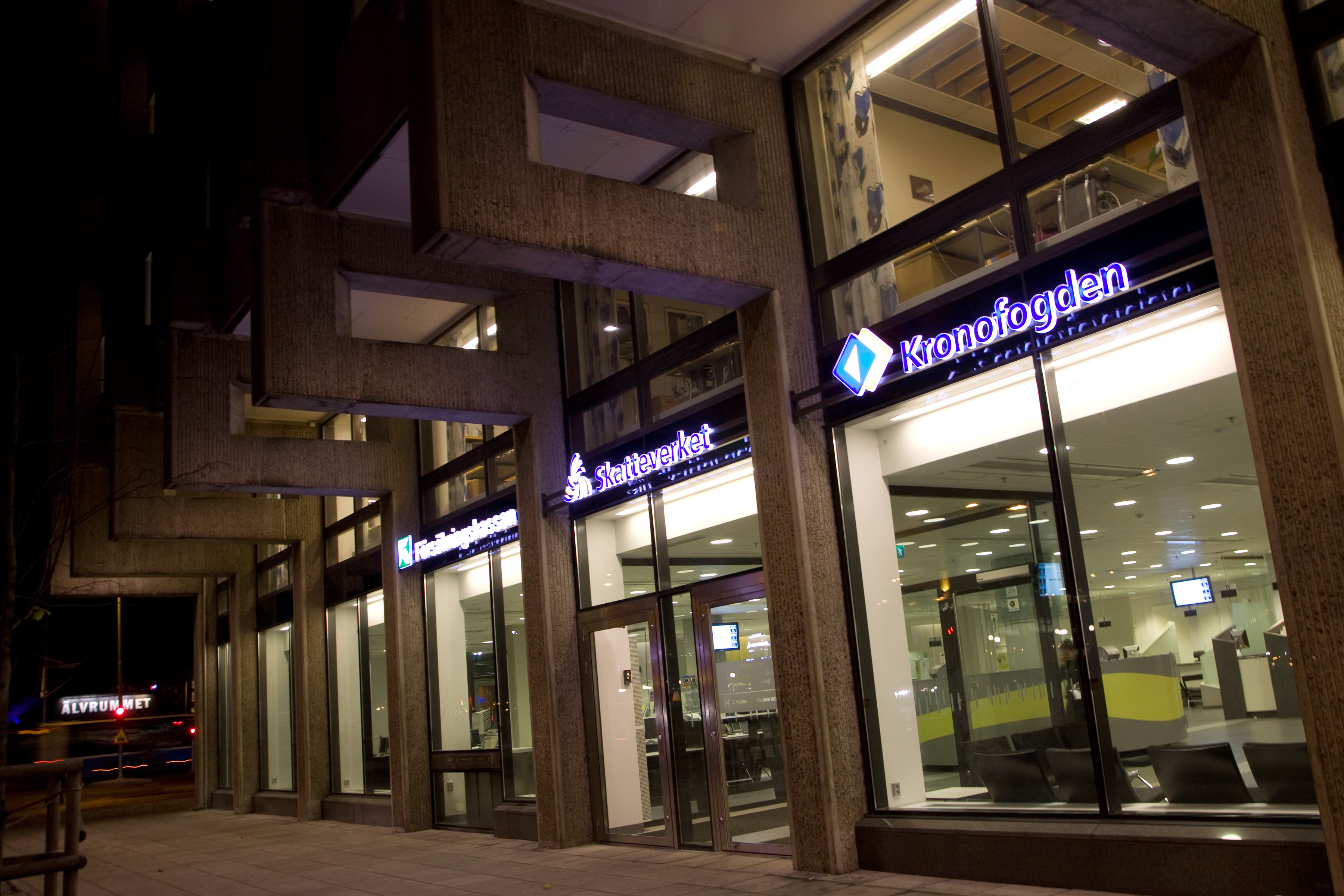 Entrance of a serivce office in Gothenburg, Sweden. Here resides the local office of three authorities: the Swedish Tax Agencies, the Swedish Enforcement Administration and the Swedish Social Insurance Agency